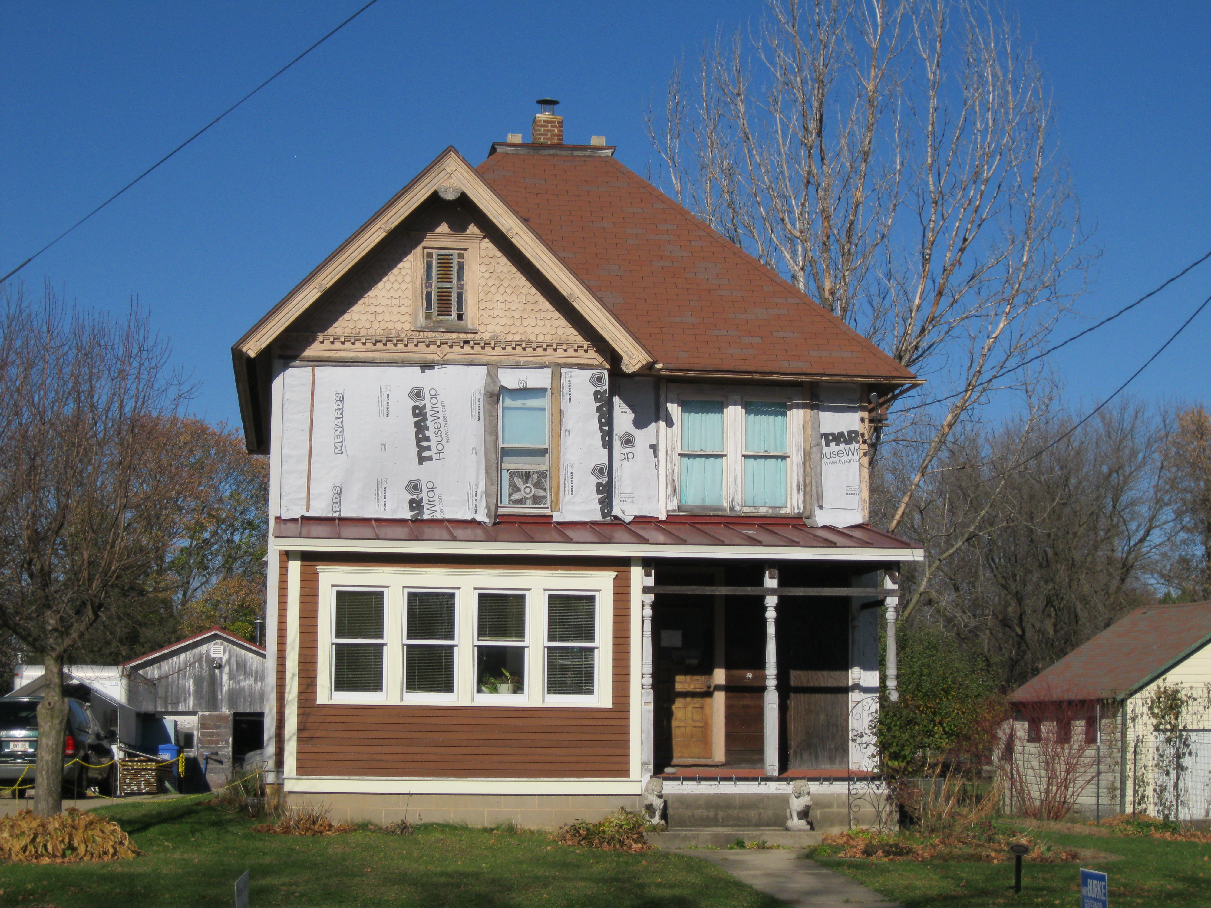 The Rose House, located at 133 W. Lincoln Street in the Lincoln Street Historic District in Oregon, Wisconsin.